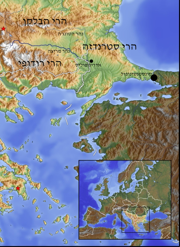 a map of the area of the Battle of Adrianople based on Balkan_topo_blank